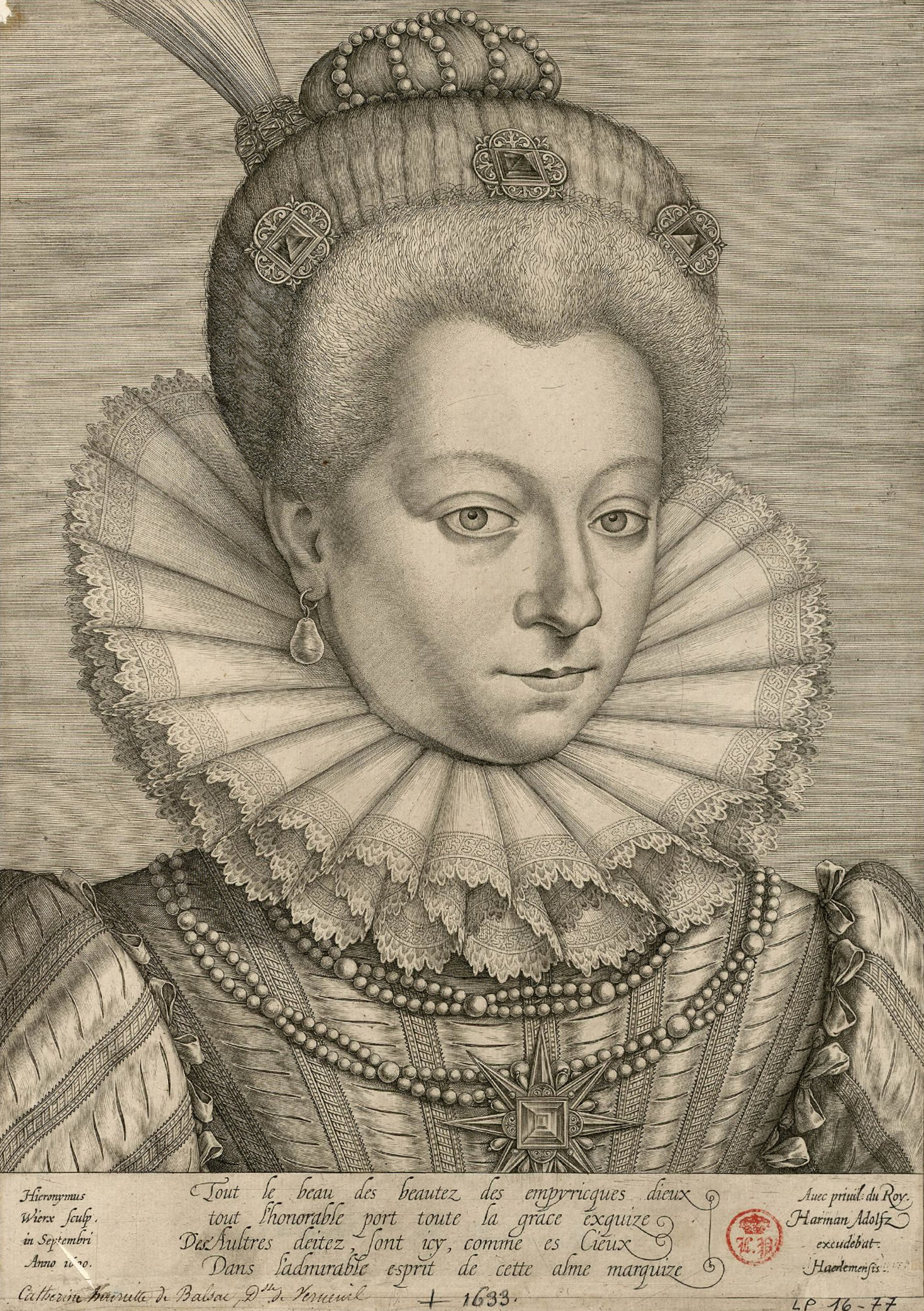 Engraving with a portrait of Catherine Henriette de Balzac d’Entragues